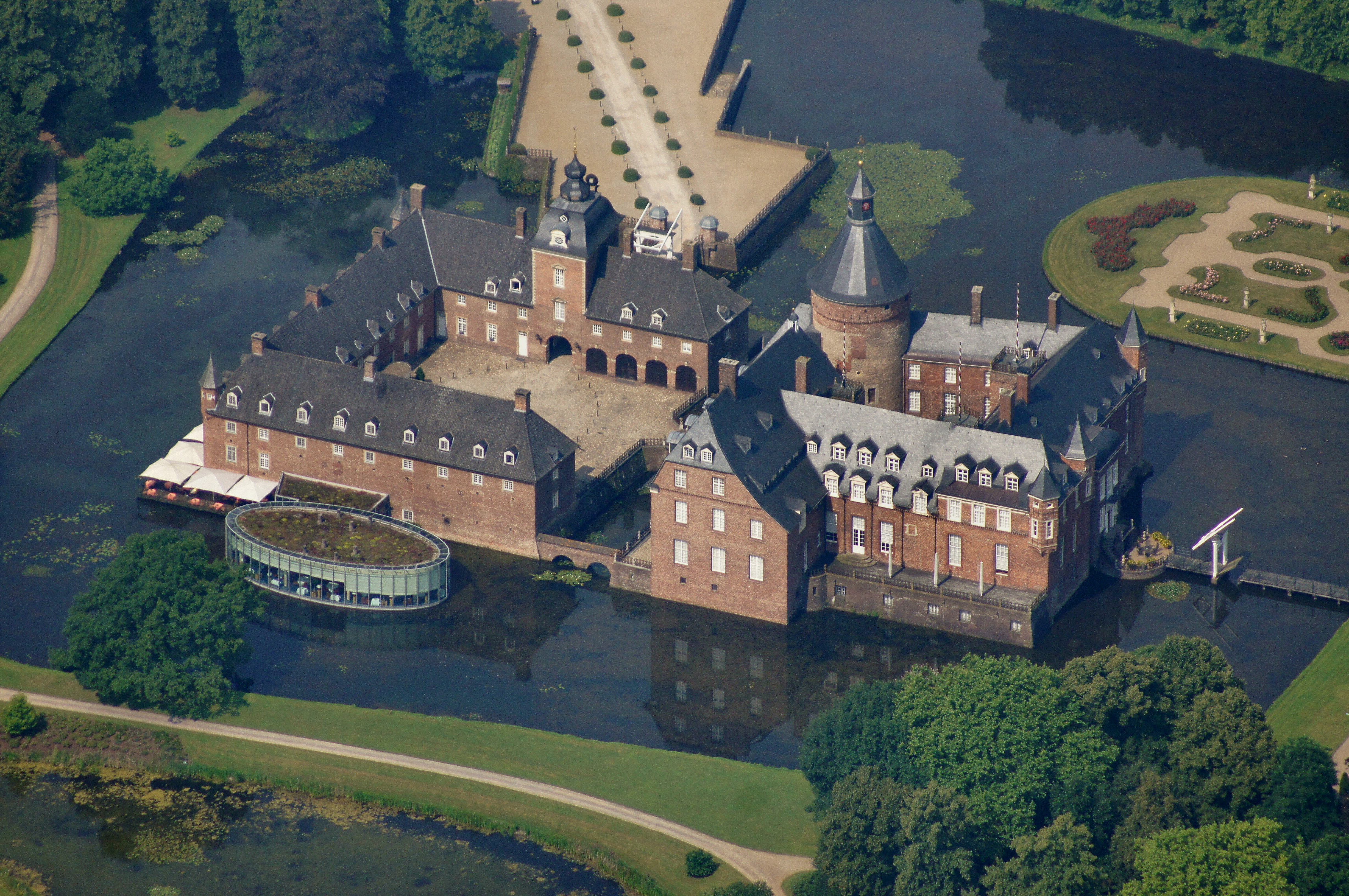 The castle of Anholt is situated in Anholt, Isselburg, district of Borken in North Rhine-Westphalia, Germany.